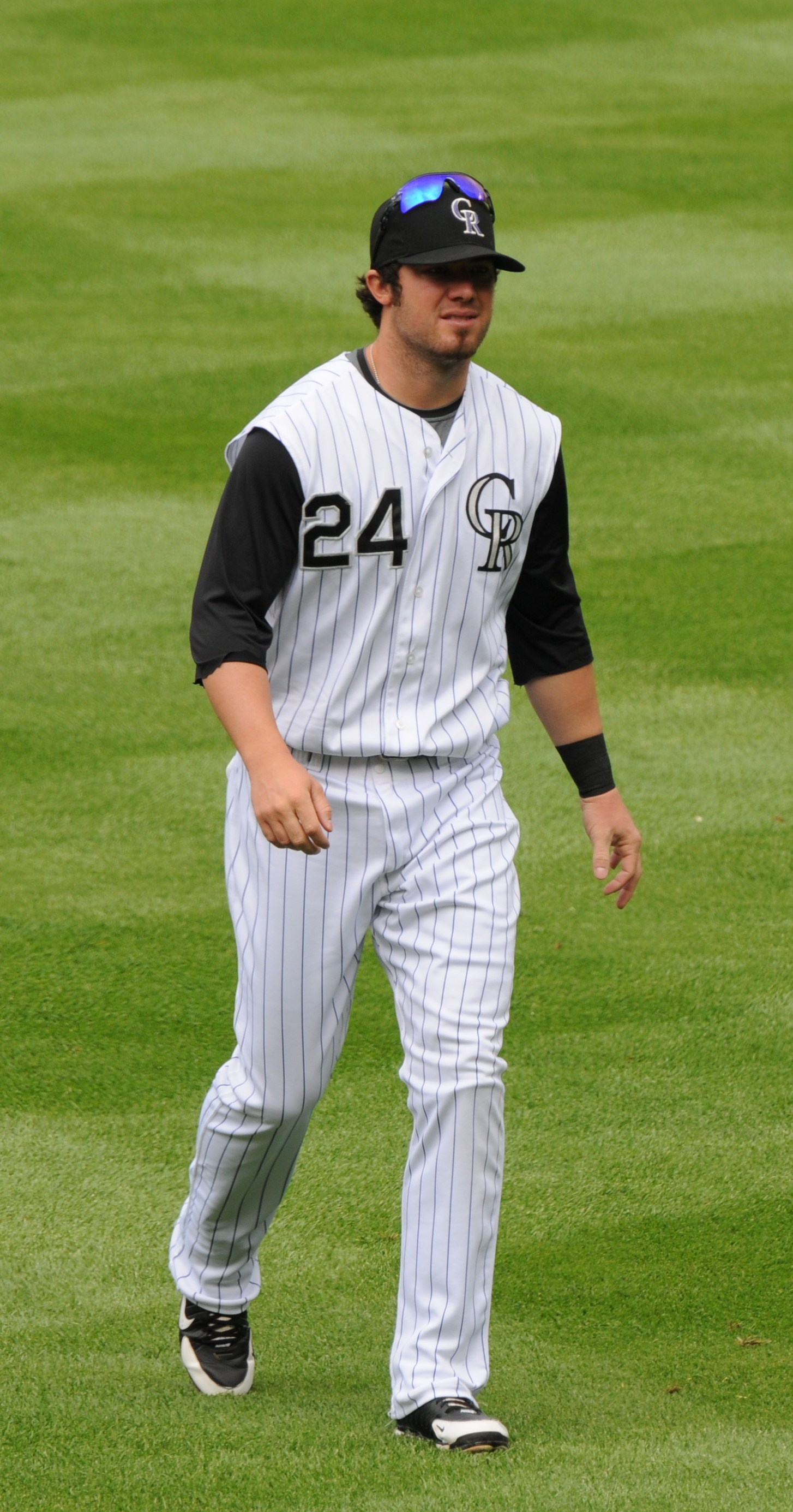 Description own work DateSourceI created this work entirely by myself.AuthorOnetwo1 (talk) 16:13, 8 August 2008 . . Onetwo1 . . 1,454×2,770 (707 KB) own work